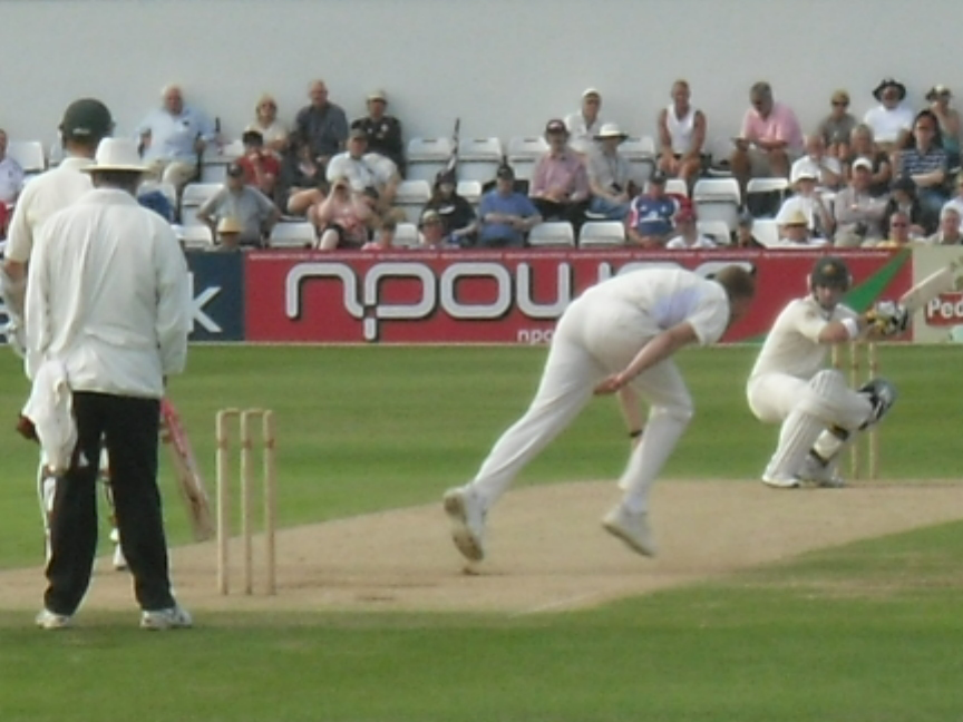 Hughes ducking to short ball from fast bowler Andrew Flintoff